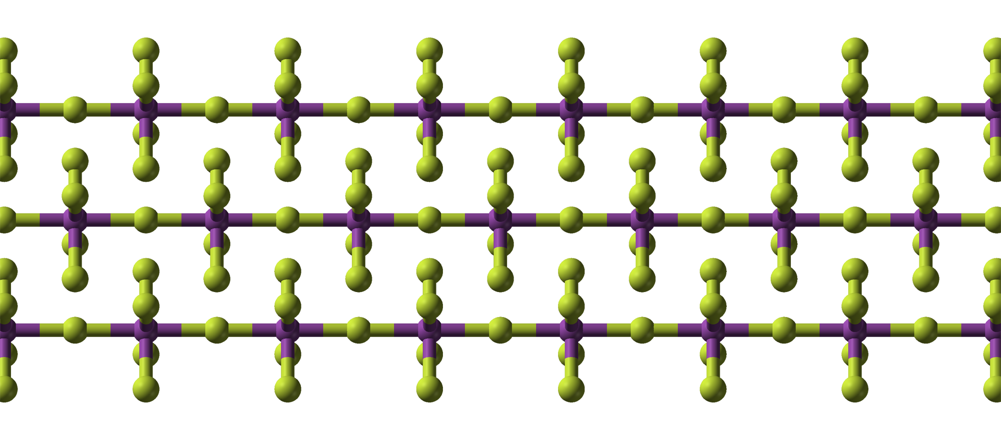 Ball-and-stick model of part of the crystal structure bismuth pentafluoride, BiF5. X-ray crystallographic data from Z. anorg. allg. Chem. (1971) 384, 111-114. Model constructed in CrystalMaker 8.1. Image generated in Accelrys DS Visualizer.